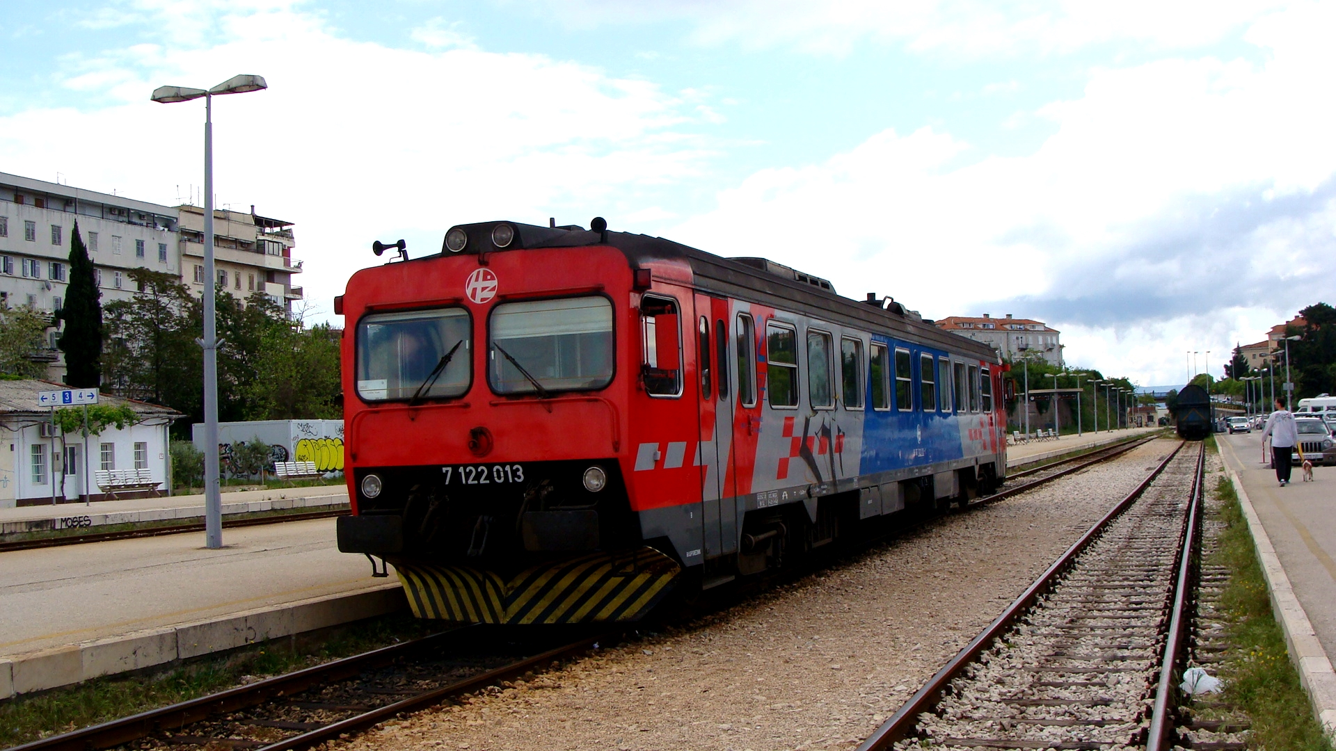 The 7122 series of the Hrvatske željeznice (Croatian Railways) in Split. Spring 2014.